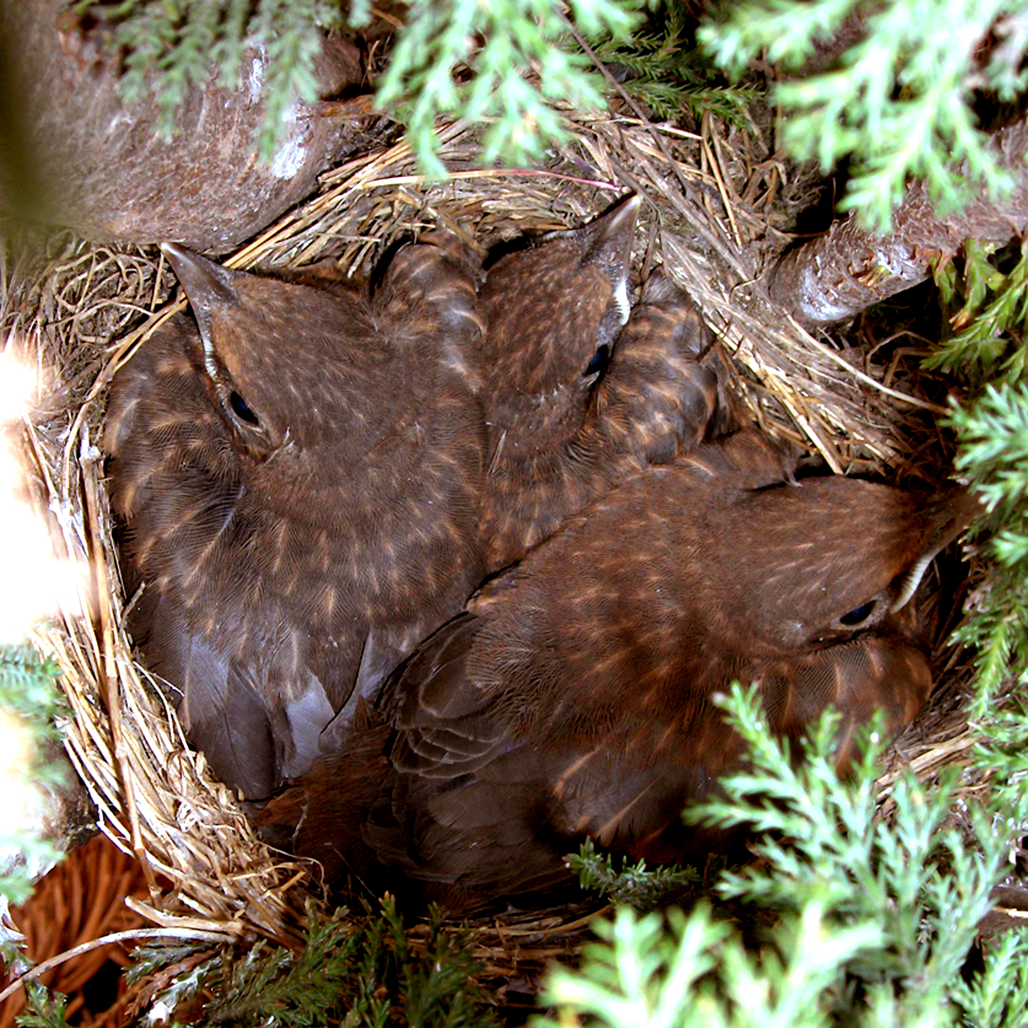 Three small blackbirds in their nest.